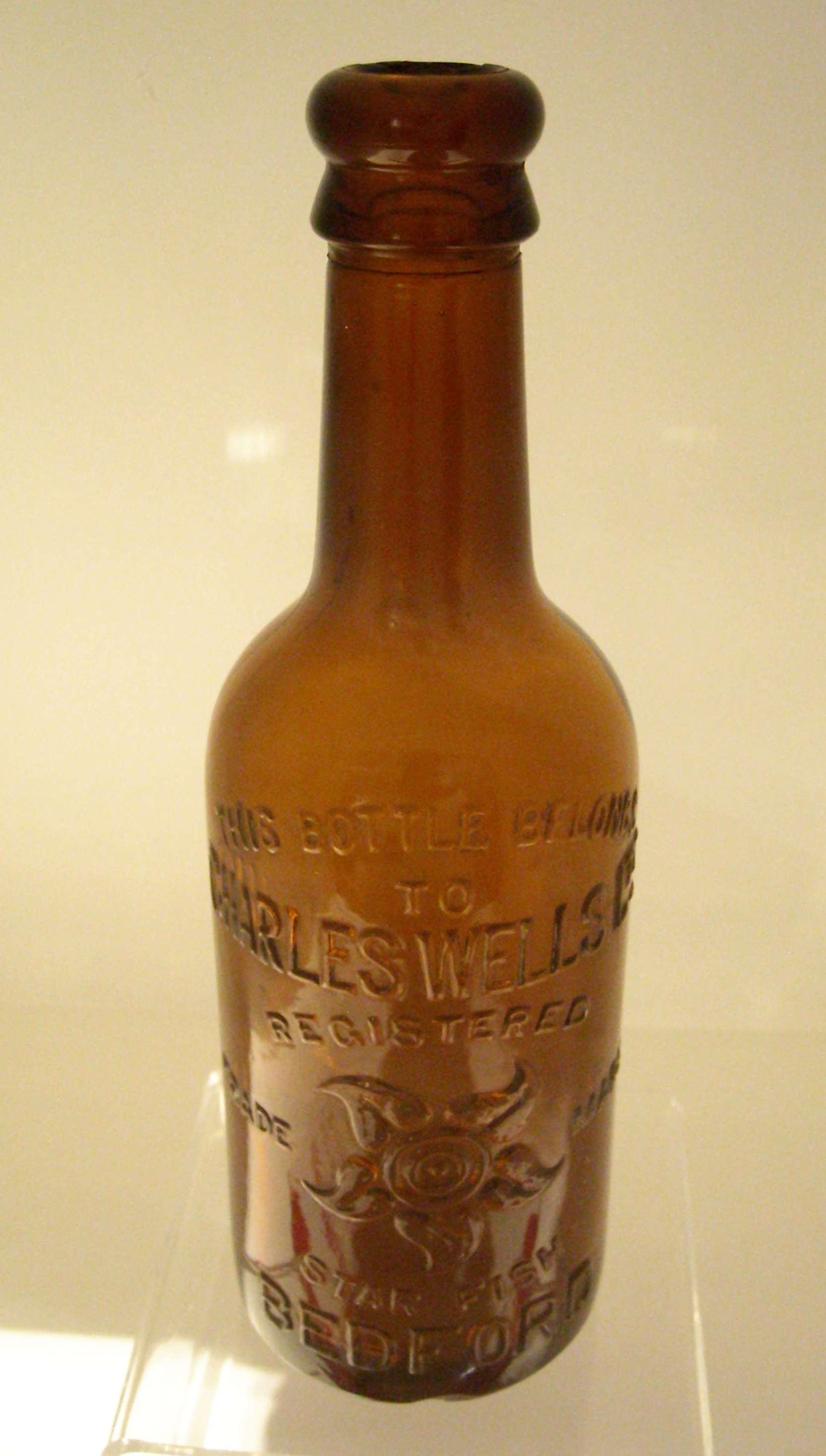 A Charles Wells beer bottle from the late 19th or early twentieth century, on display in The Higgins museum and gallery, Bedford.